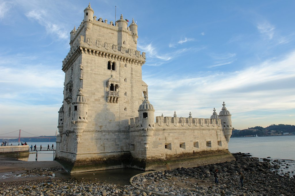 The Tower of Belém, Lisbon, Portugal. View from Northeast.